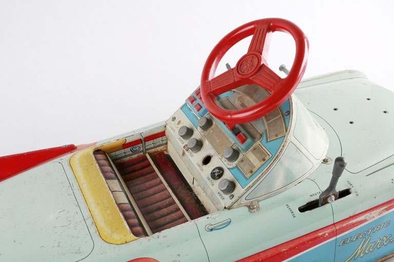 An Electric Marx Mobile in the permanent collection of The Children’s Museum of Indianapolis.